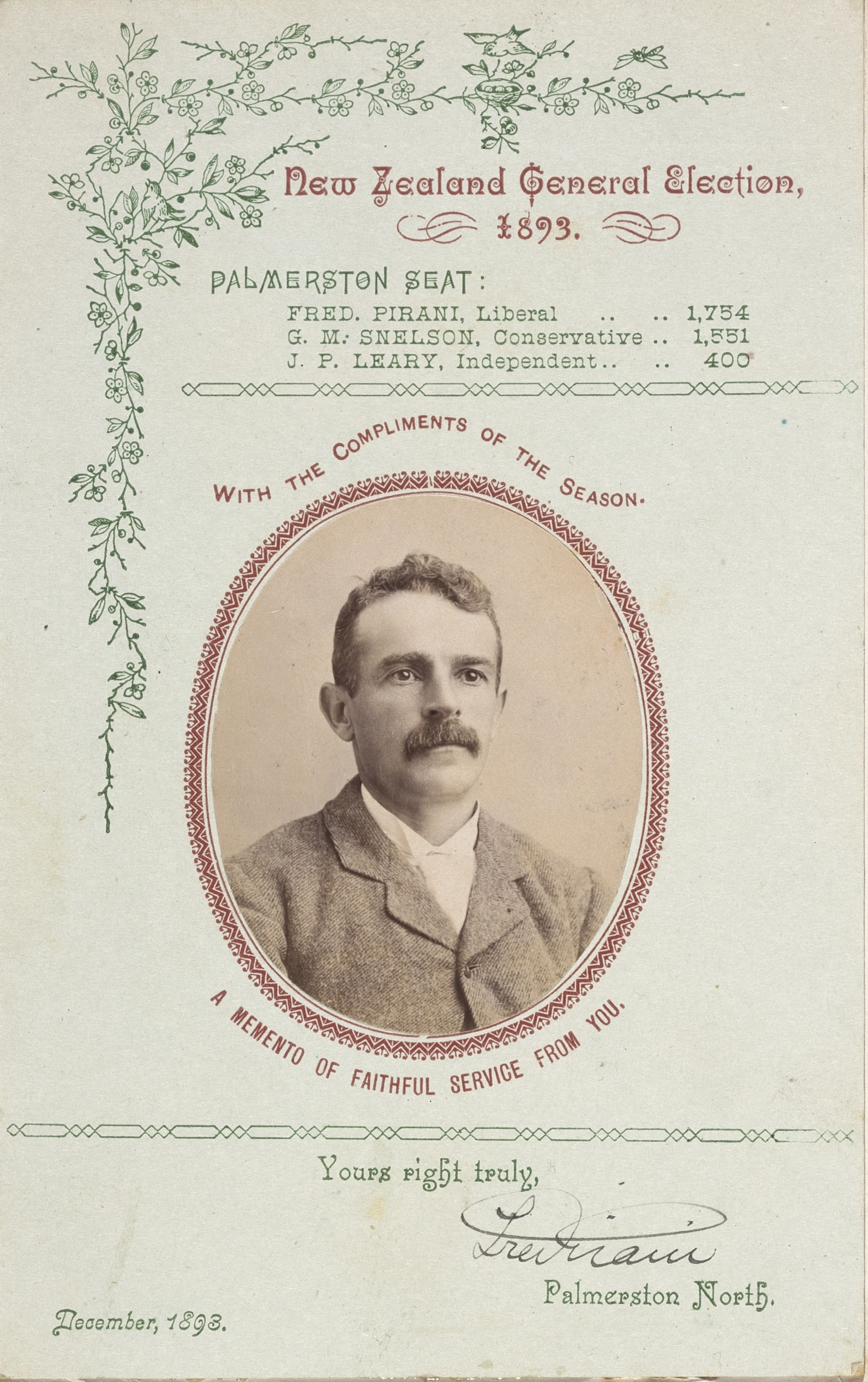 Greeting card from Fred Pirani (Liberial), which notes Pirani's victory in the Palmerston electorate for the New Zealand General Election of 1893.